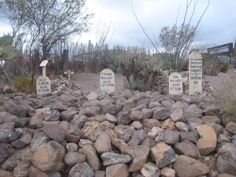 Graves of Billy Clanton, and Frank and Tom McLaury who perished in the historic gunfight at the O.K. Corral. The graves are located in the historic Boot Hill cemetery in Tombstone, Arizona.